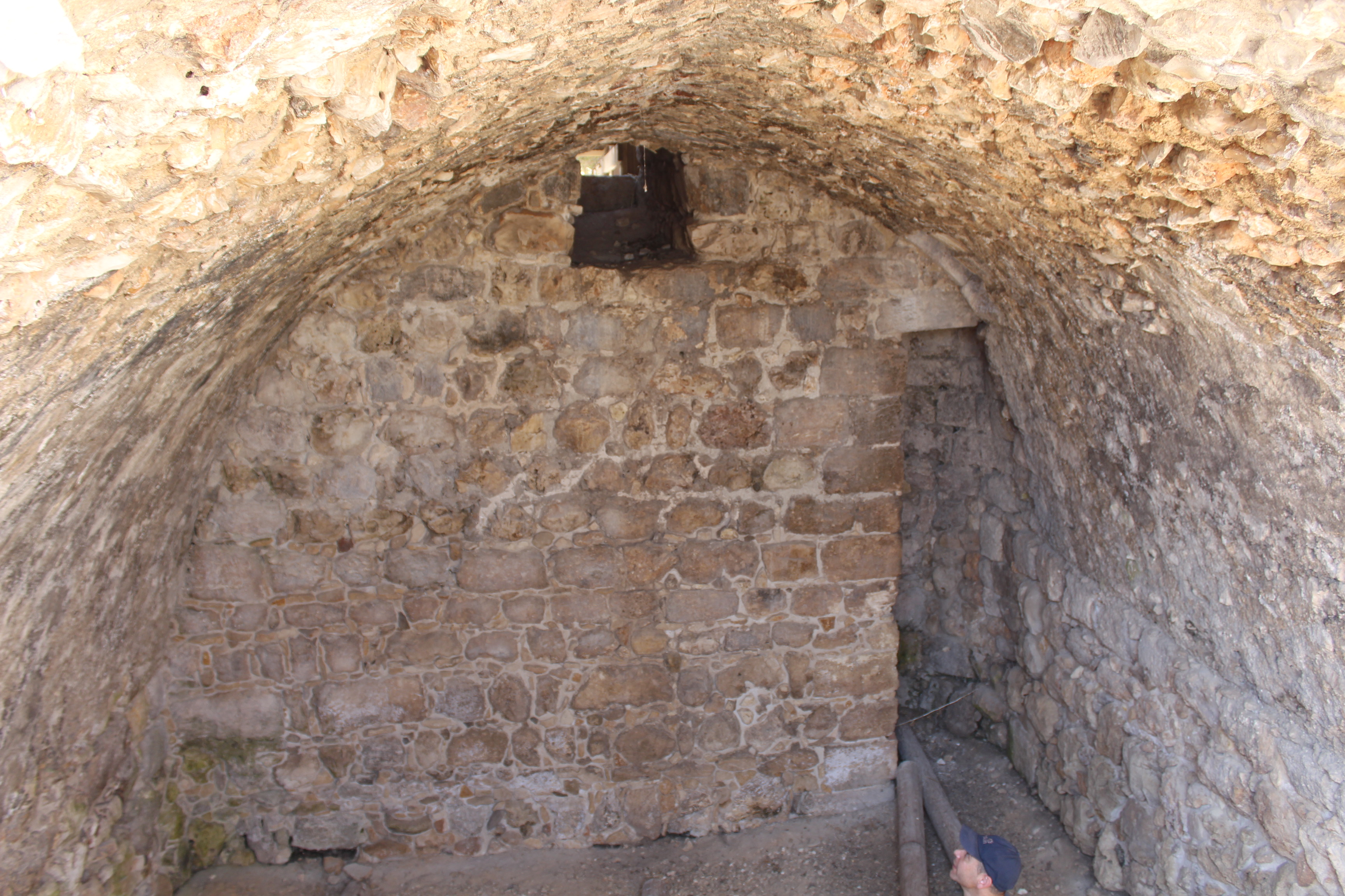 Crusader period remains - the smaller, northern tower,Tel Yokneam The site's ID in Wiki Loves Monuments photographic competition is 16-0240-100